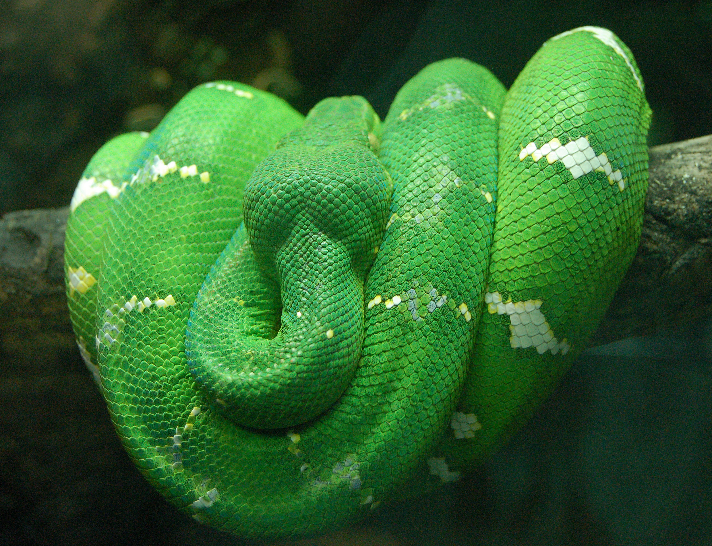 A photograph of the Emerald tree boa (Corallus caninus). Photo taken at the Philadelphia Zoo.